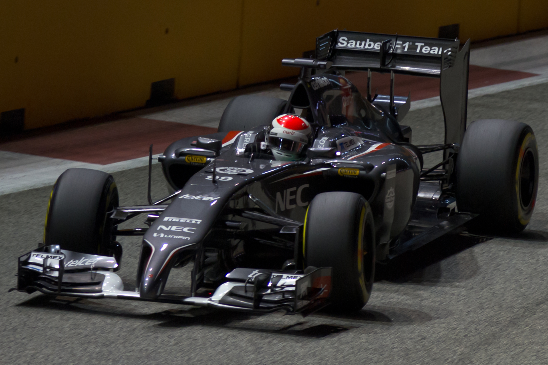 Formula One 2014 Rd.14 Singapore GP: Adrial Sutil (Sauber)